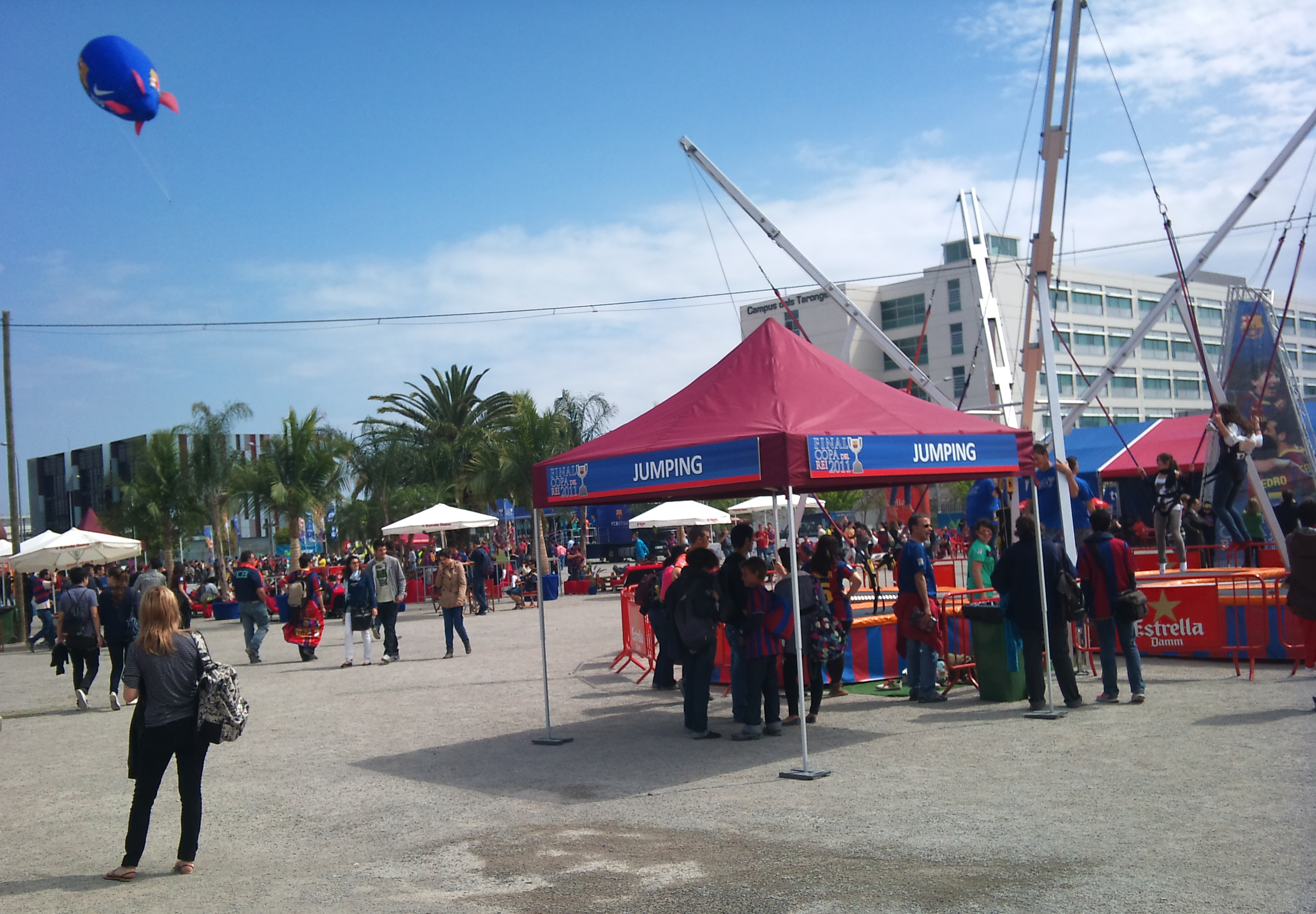 FC Barcelona's Fan Zone for the 2011 Copa del Rey's final.